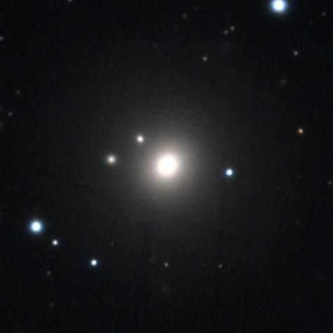 PanSTARRS image of NGC 1272.